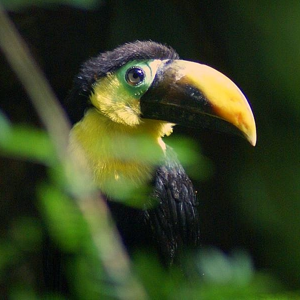 A juvenile Chestnut-mandibled Toucan also called Swainson’s Toucan in Panama.